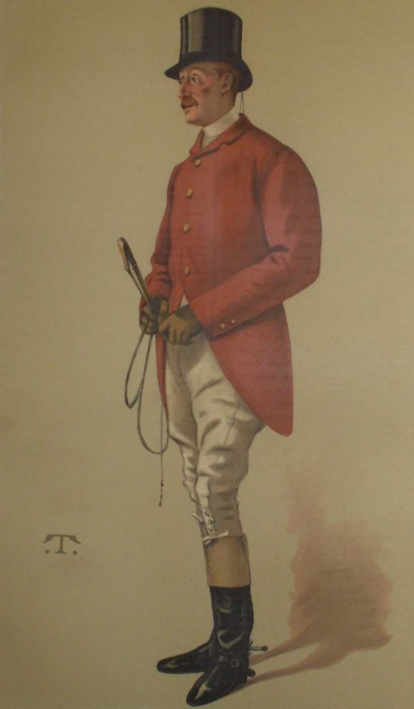 Caricature of Captain William George Middleton. Caption read "Bay".